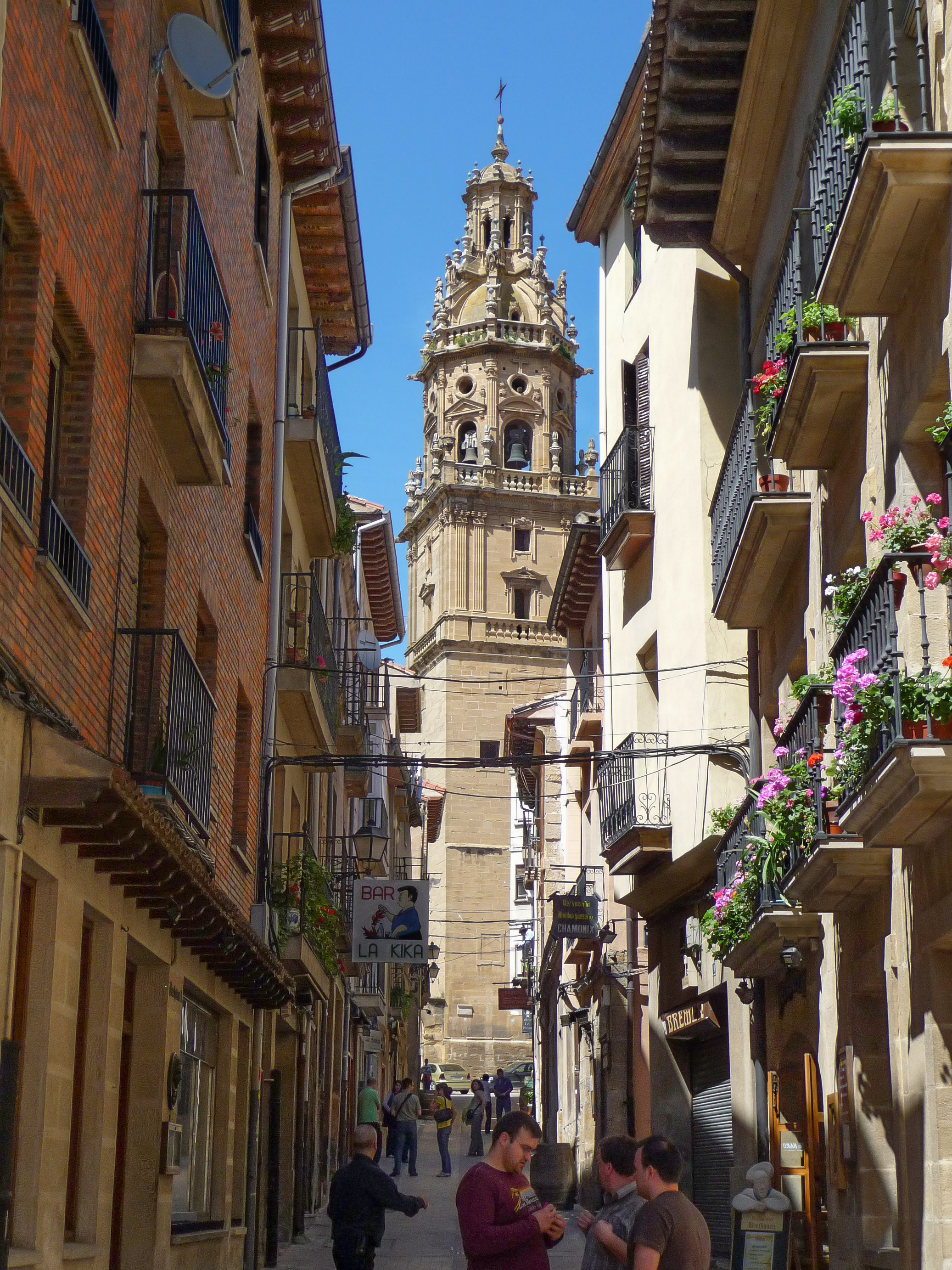 Tower of the church of St Thomas, seen from the street of the same name.